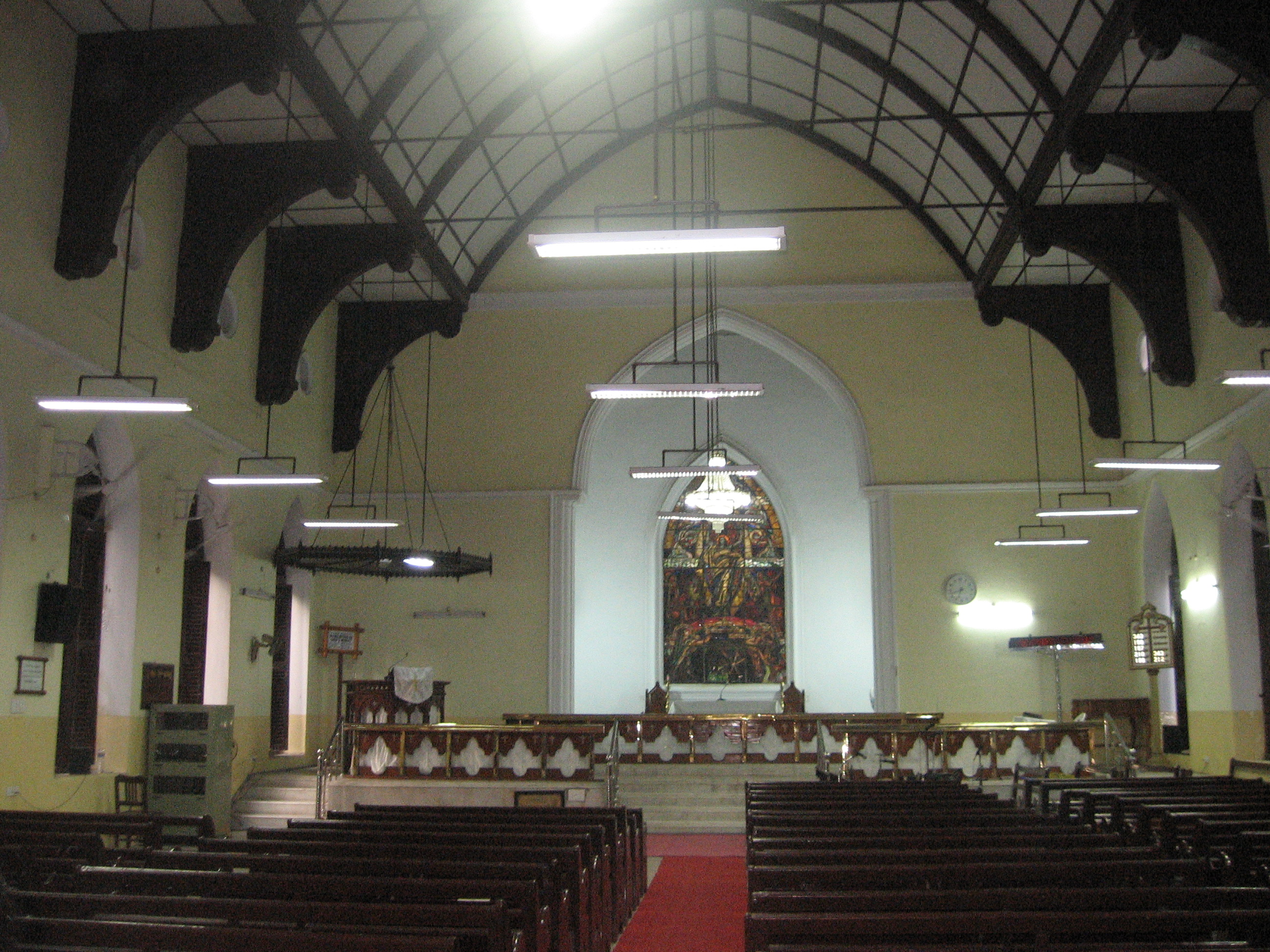 own work